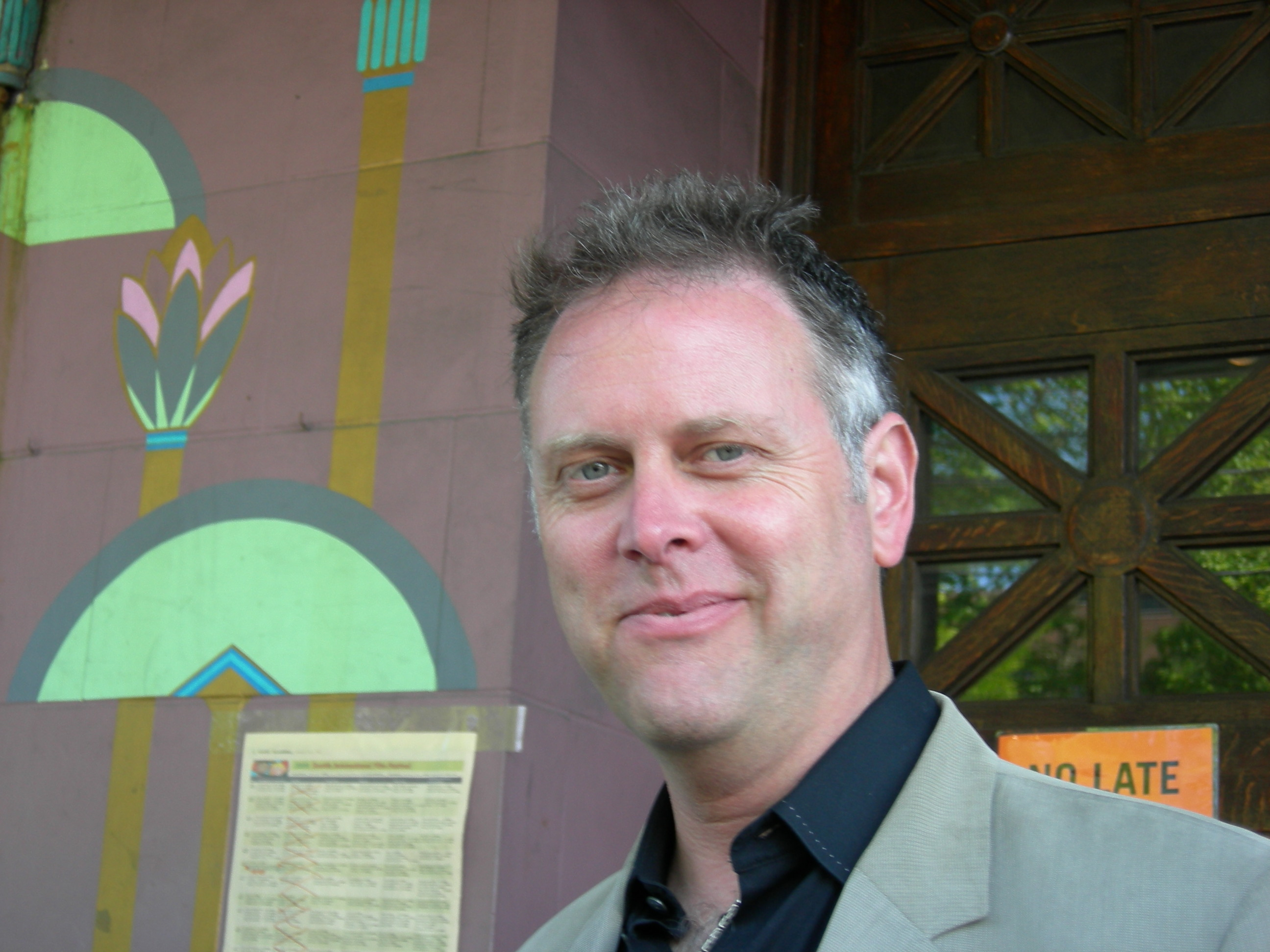 Film noir critic Eddie Muller (at the 2006 Seattle International Film Festival).